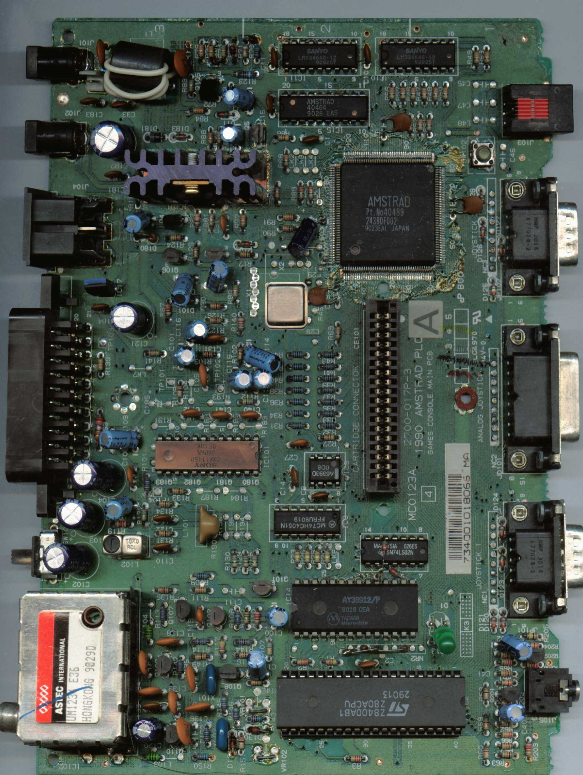 PCB scan of the Amstrad GX4000 games console.